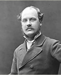 Dr Albert Lister Peace (1844–1912) was an English organist and composer